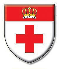 Malta